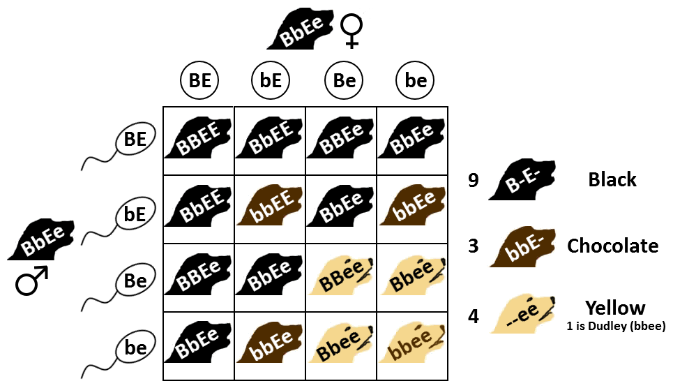 Punnett square showing the inheritance of Labrador retriever coat color genetics